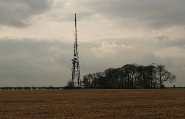 High Hunsley Radio Mast, High Hunsley, East Riding of Yorkshire, England. The mast is seen next to the copse as one approaches High Hunsley Crossroads from the southeast.